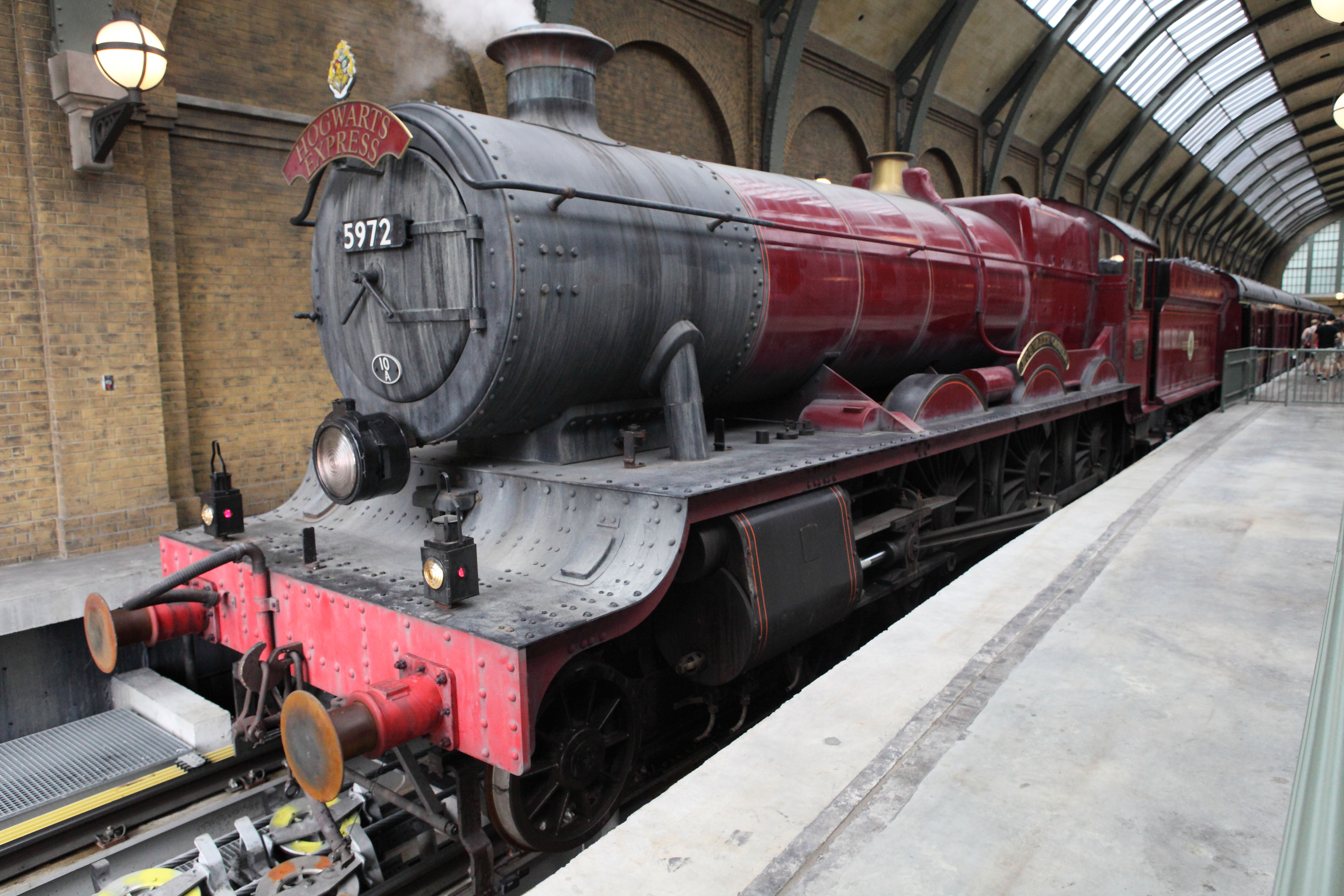 Hogwarts Express (funicular)